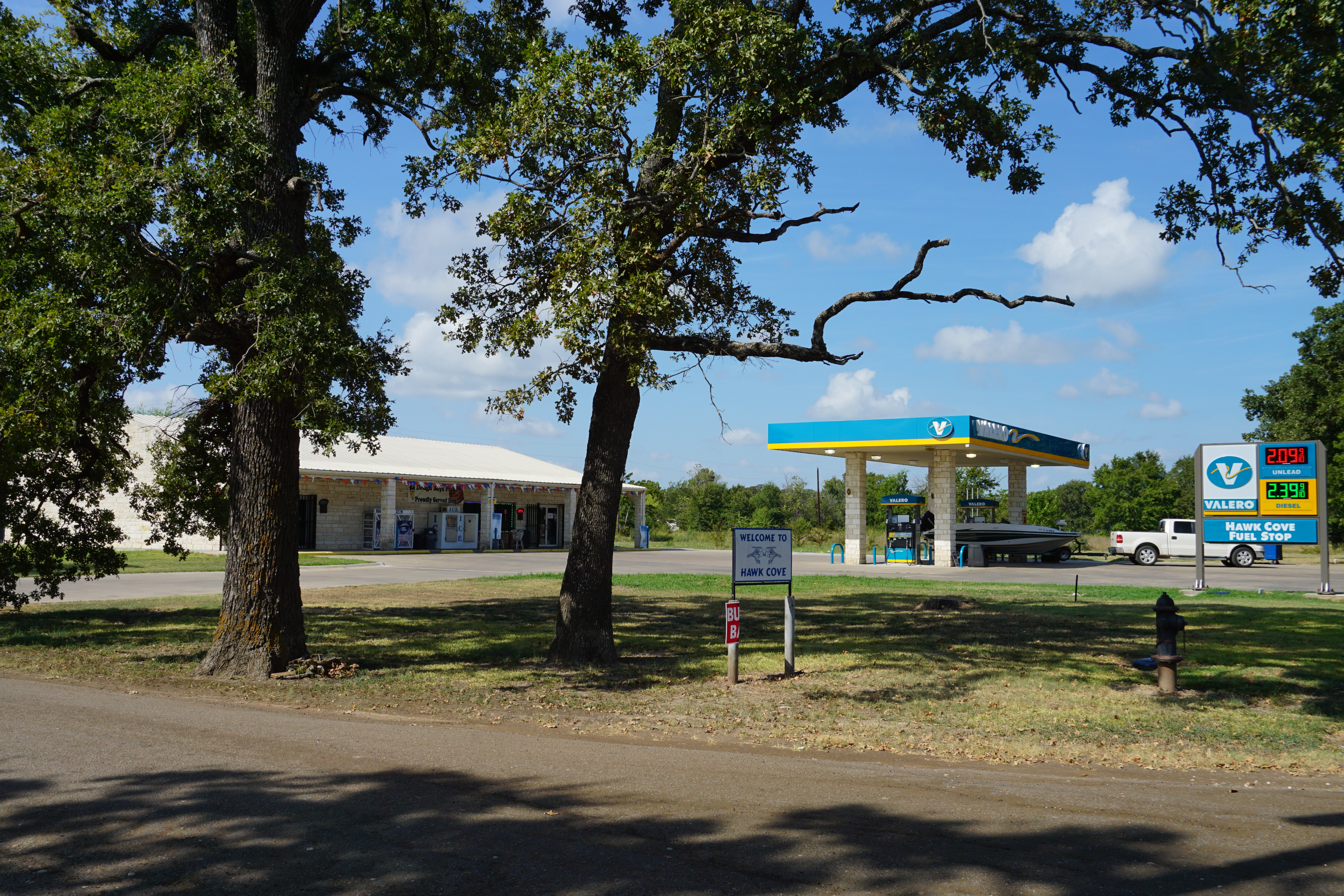 The Valero gas station in Hawk Cove, Texas (United States).